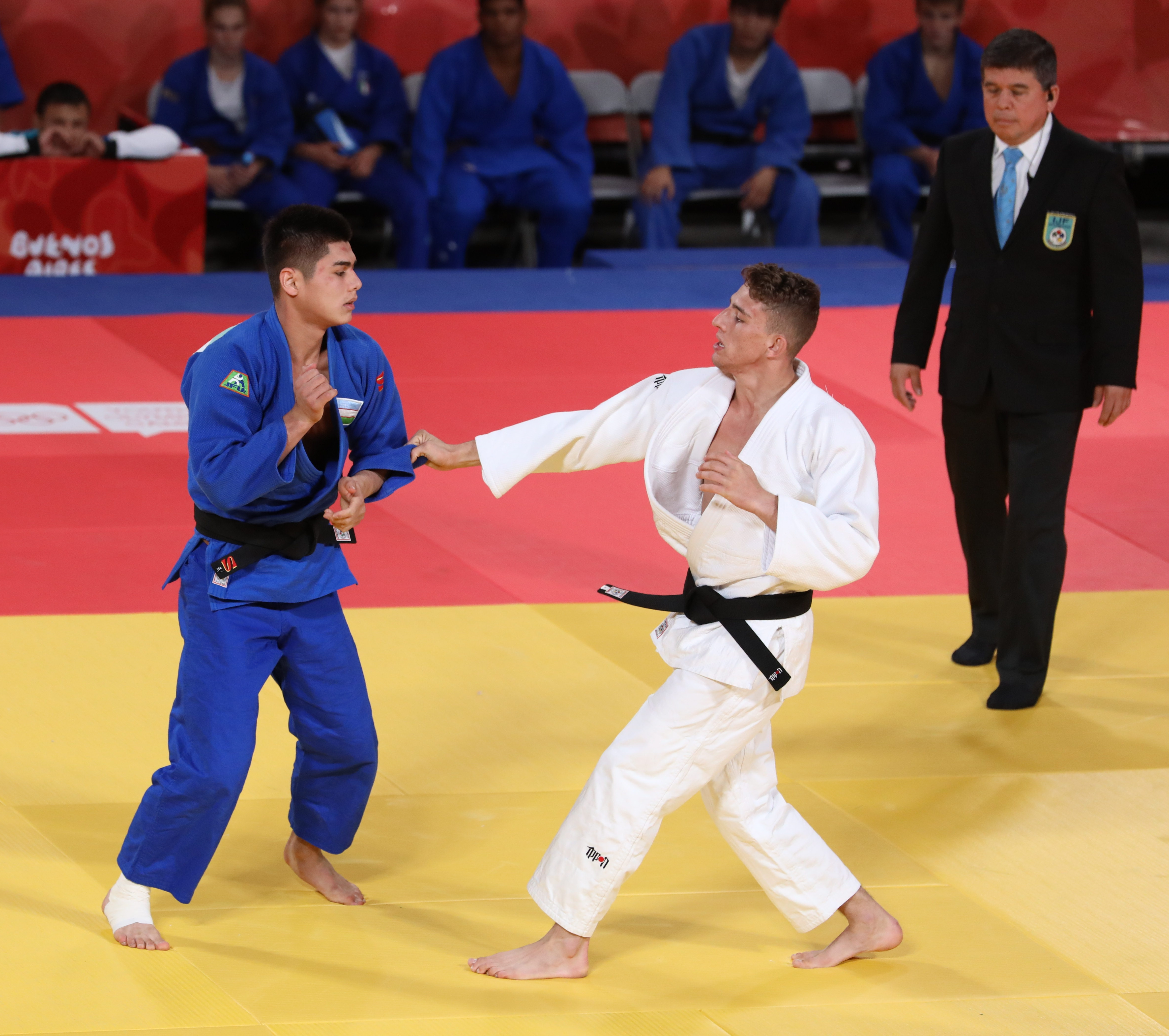 Judo Mixed International Team, Semifinal, Team Athens vs. Team Beijing: Javier Peña Insausti ( Spain, Team Athens) vs. Jaykhunbek Nazarov ( Uzbekistan, Team Beijing)